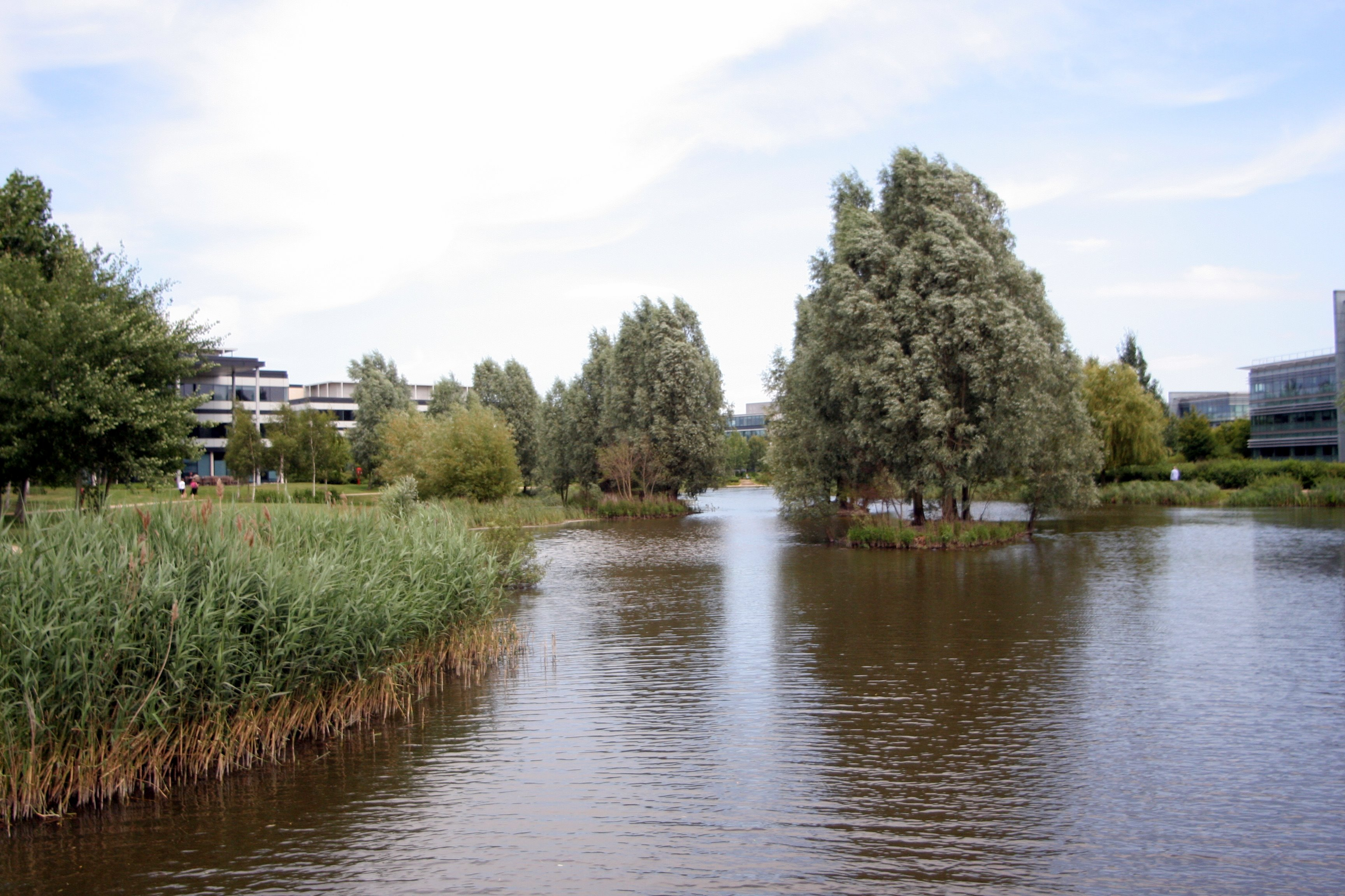 Stuff at Green park lake, Cisco Reading.